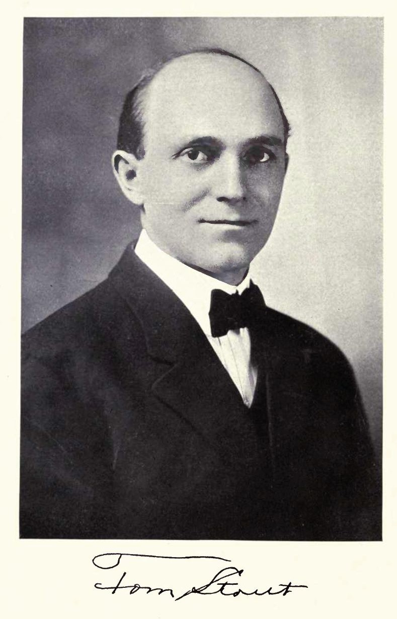 Portrait of Tom Stout, Author, Montana Its Story and Biography, 1921